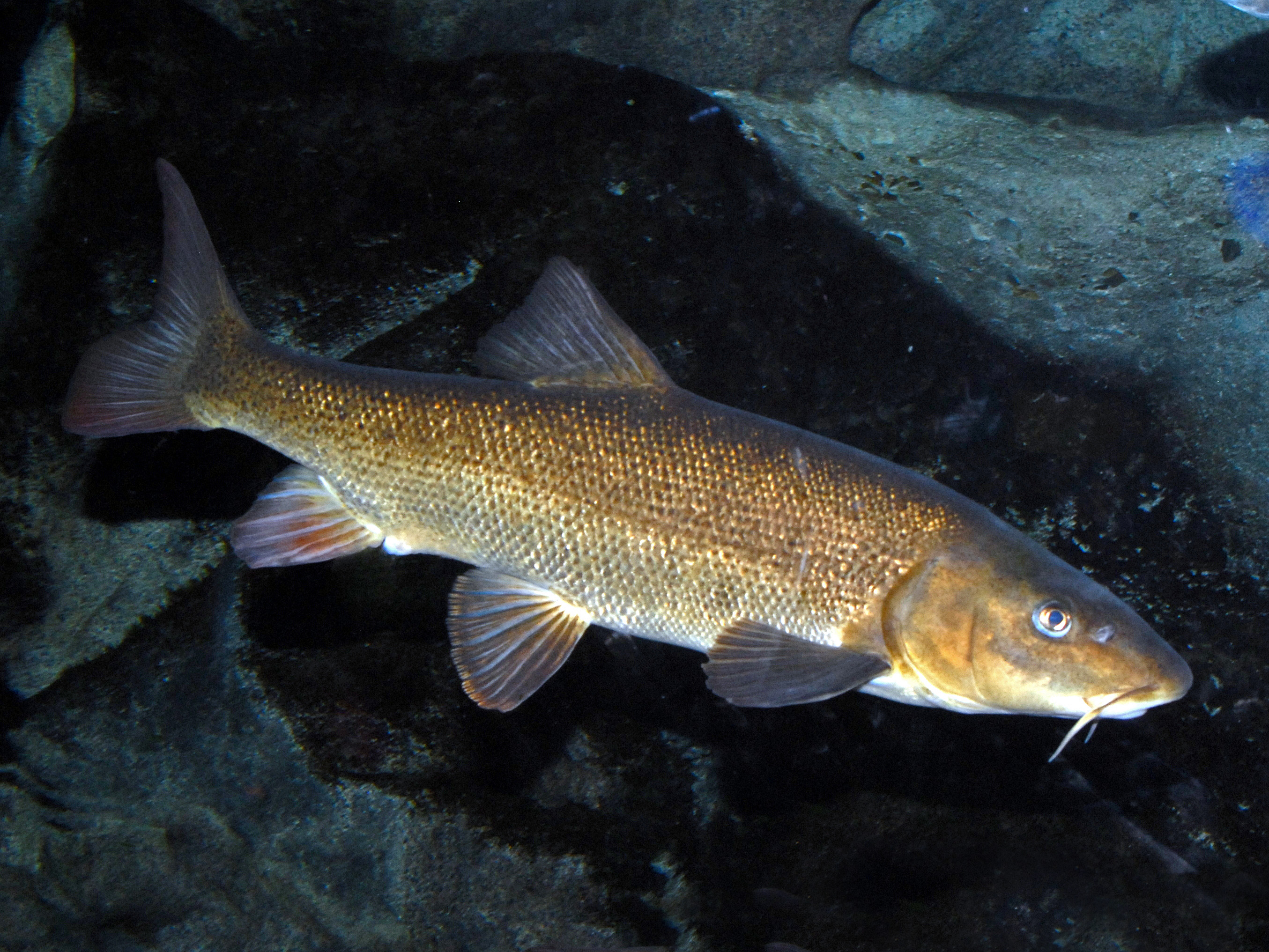 Barbus plebejus